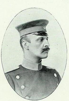 A photograph of Prince Frederic of Saxe-Meiningen, taken about 1898